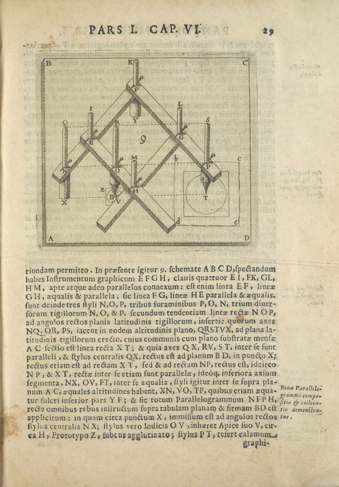 Pantograph, from Book Pantographice seu ars delineandi, Page 29